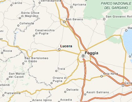 Planimetria Lucera